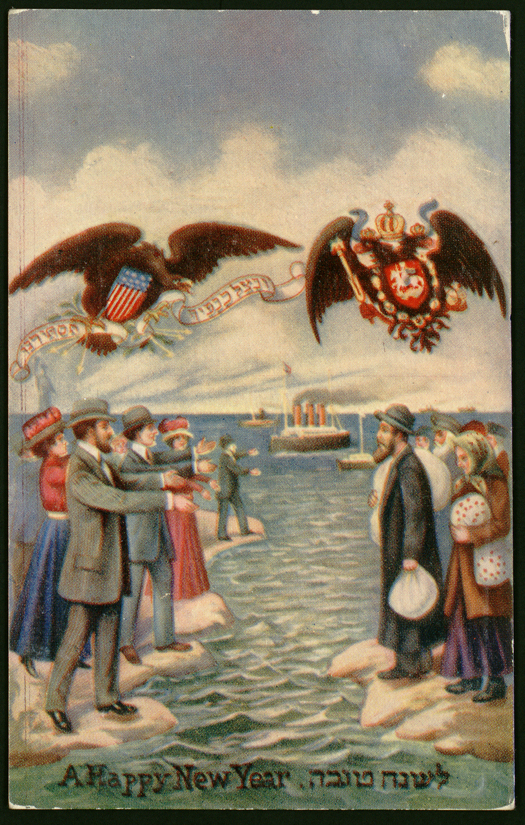 Under the Imperial Russian coat of arms, traditionally dressed Russian Jews, packs in hand, line Europe's shore as they gaze across the ocean. Waiting for them under an American eagle holding a banner with the legend "Shelter us in the shadow of Your wings" (Psalms 17:8), are their Americanized relatives, whose outstretched arms simultaneously beckon and welcome them to their new home. Offset color lithograph postcard.